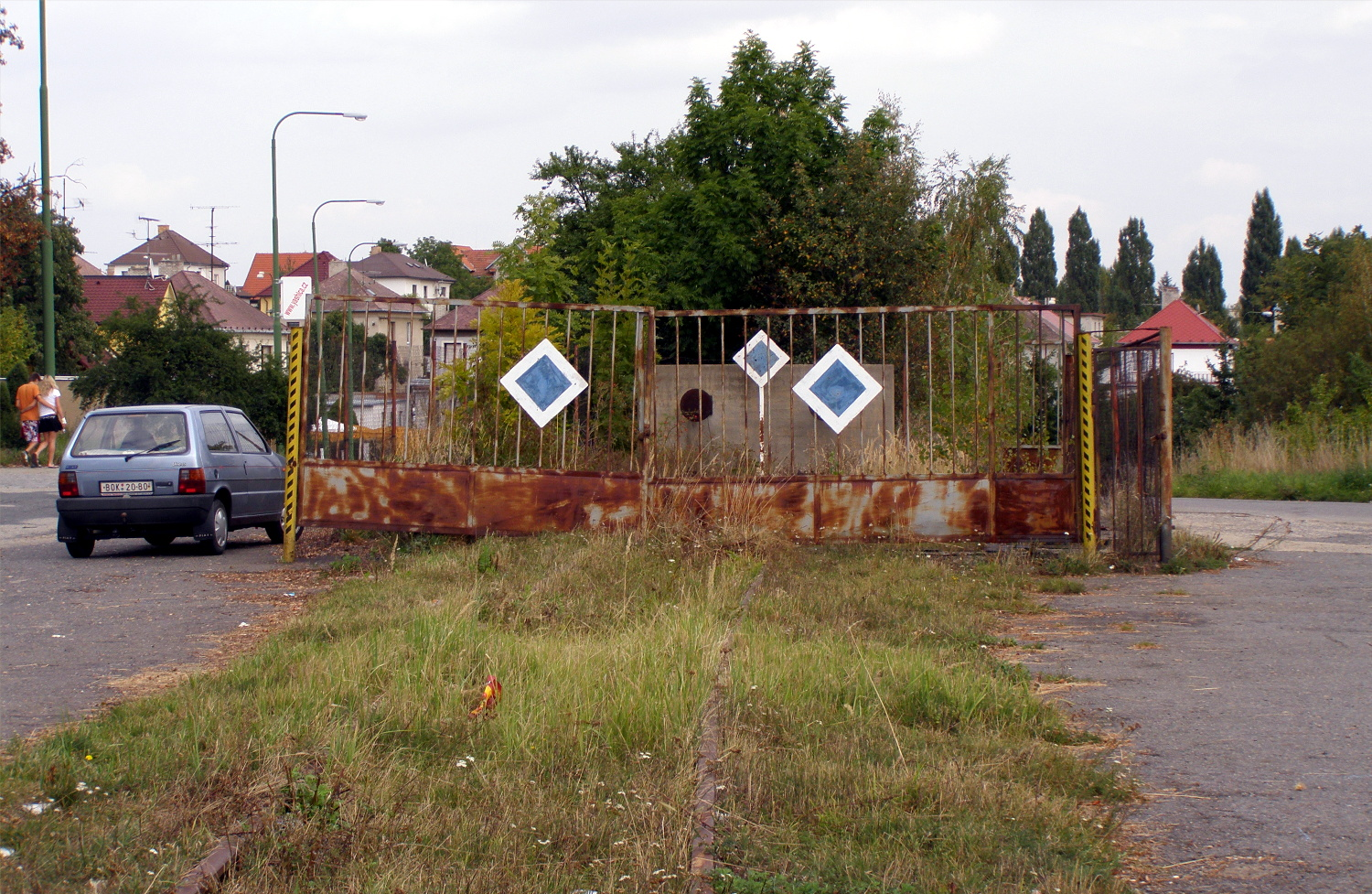 Třebíč-Borovina. One track of the Borovina railyard near railway stop „Třebíč-Borovina“, railway line 240